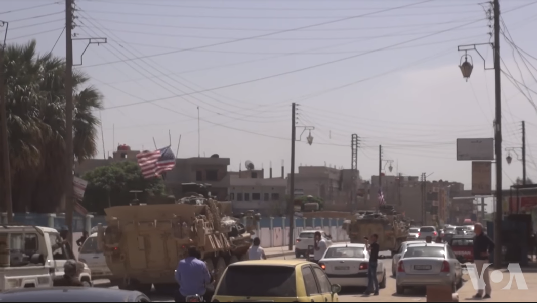 U.S. LAVs driving through Syrian streets, 2018